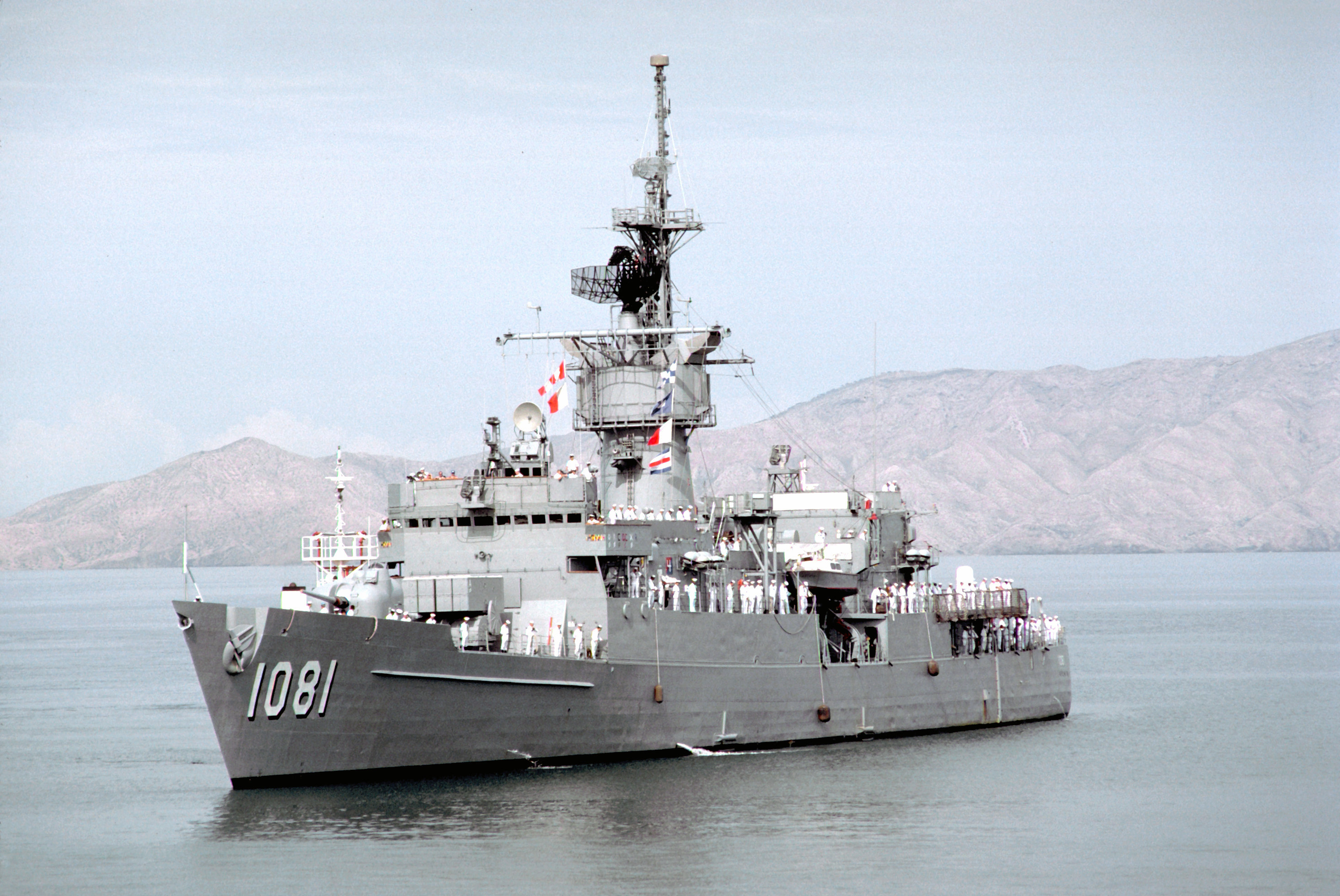 Crew members man the rails aboard the frigate USS Aylwin (FF-1081) as the ship waits in the harbor for tug boats to assist it to the pier. The Aylwin is visiting the city as part of Unitas XXXII, a combined exercise involving the naval forces of the United States and eight South American nations.